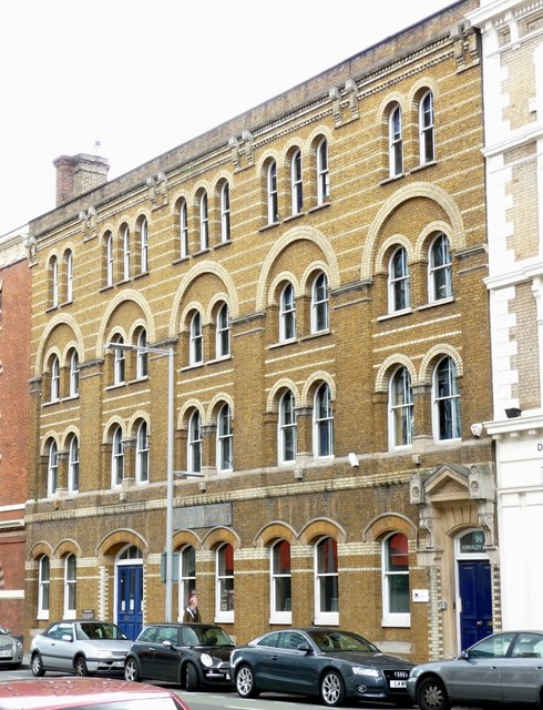 99 Southwark Street No. 99, formerly Kirkaldy's Testing Works, was built in 1877 to the designs of T.R. Smith. Kirkaldy pioneered the scientific and independent testing of materials used in civil engineering and the building now houses the Kirkaldy Testing museum. Grade II listed. Pevsner describes the architecture of Southwark Street as representing "High Victorian Southwark and includes some of the most consistent stretches of that period still remaining in London".